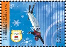 Part of Belarus souvenir sheet no. 72, commemorating the 2010 Winter Olympics and featuring freestyle skiing.